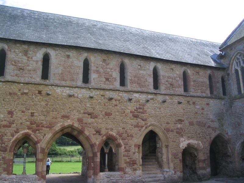 Cleeve Abbey